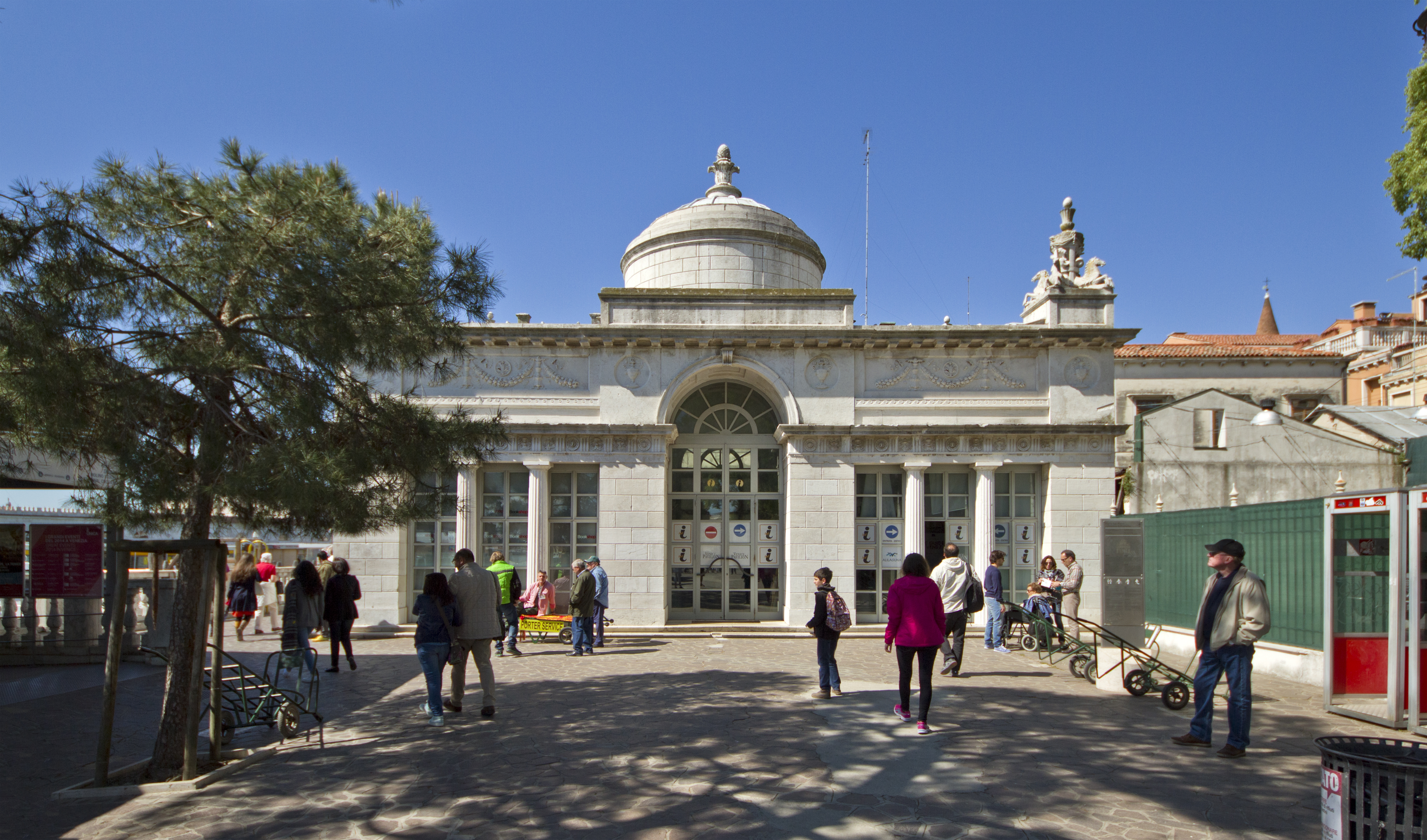 San Marco, 30100 Venice, Italy